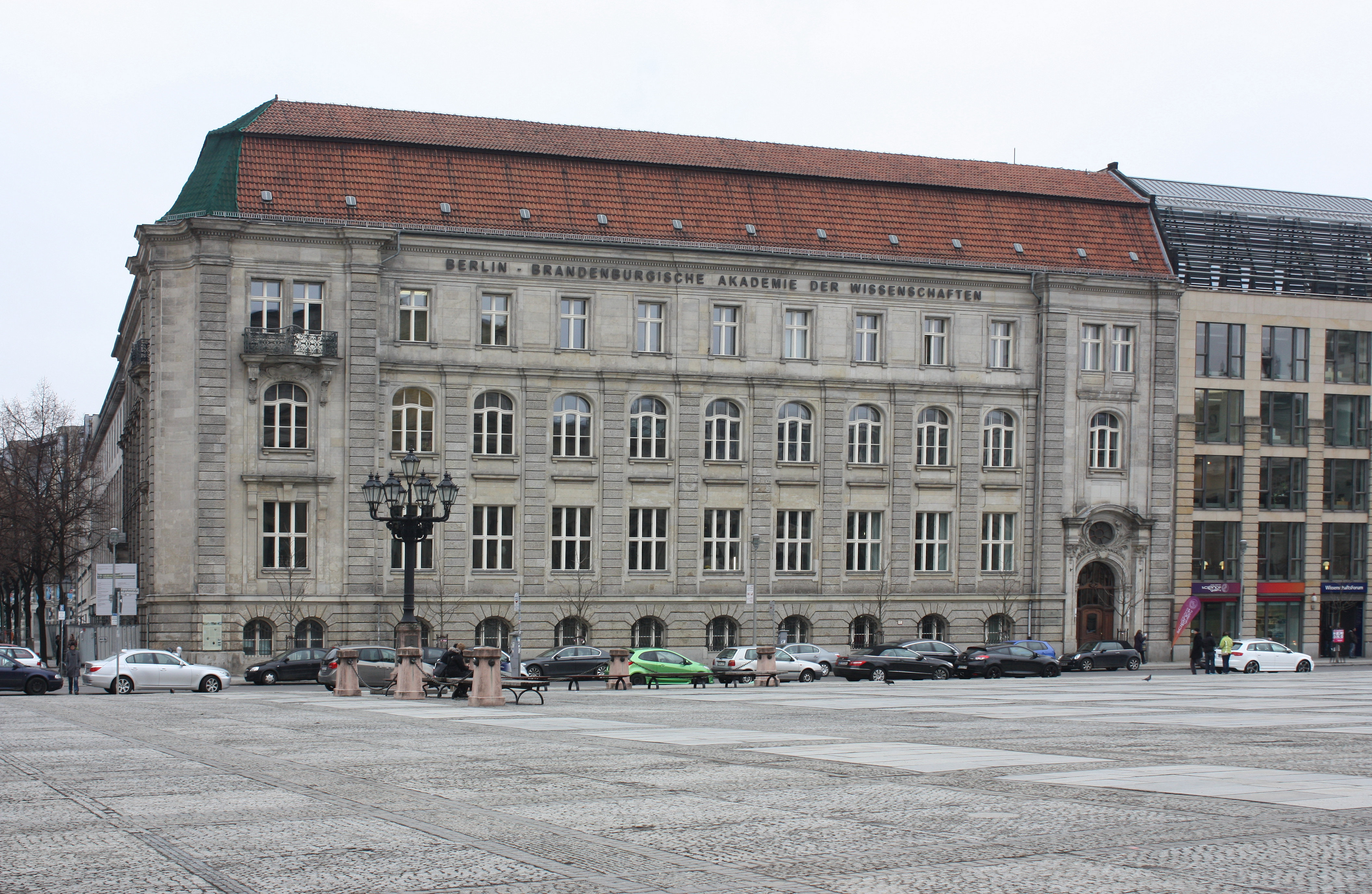 Berlin-Mitte, the Academy of Sciences of Brandenburg